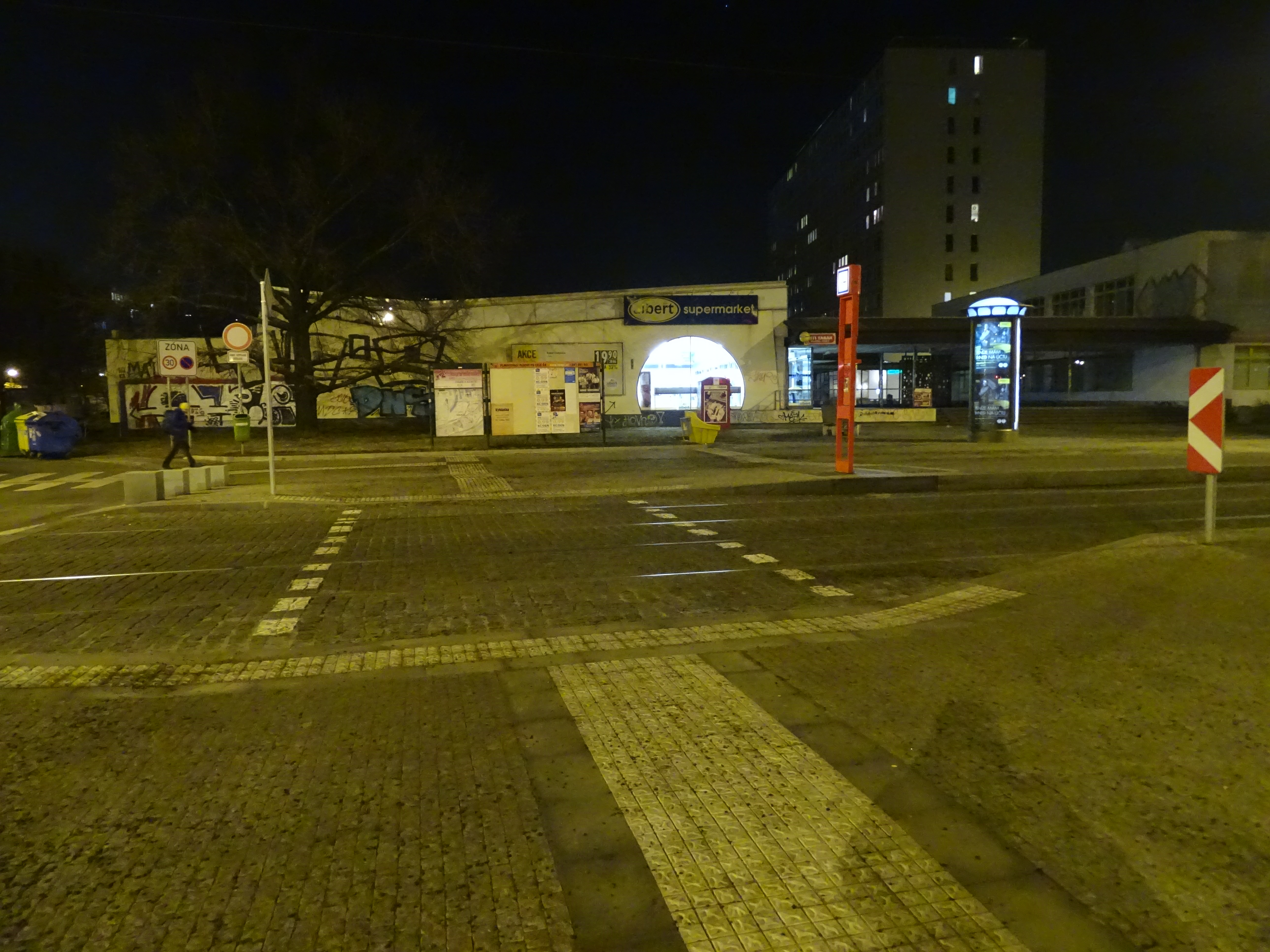 Prague-Karlín, Czechia, Sokolovská street, a crosswalk.